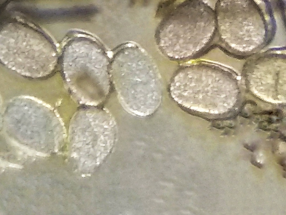 Pollens of Commelina diffusa